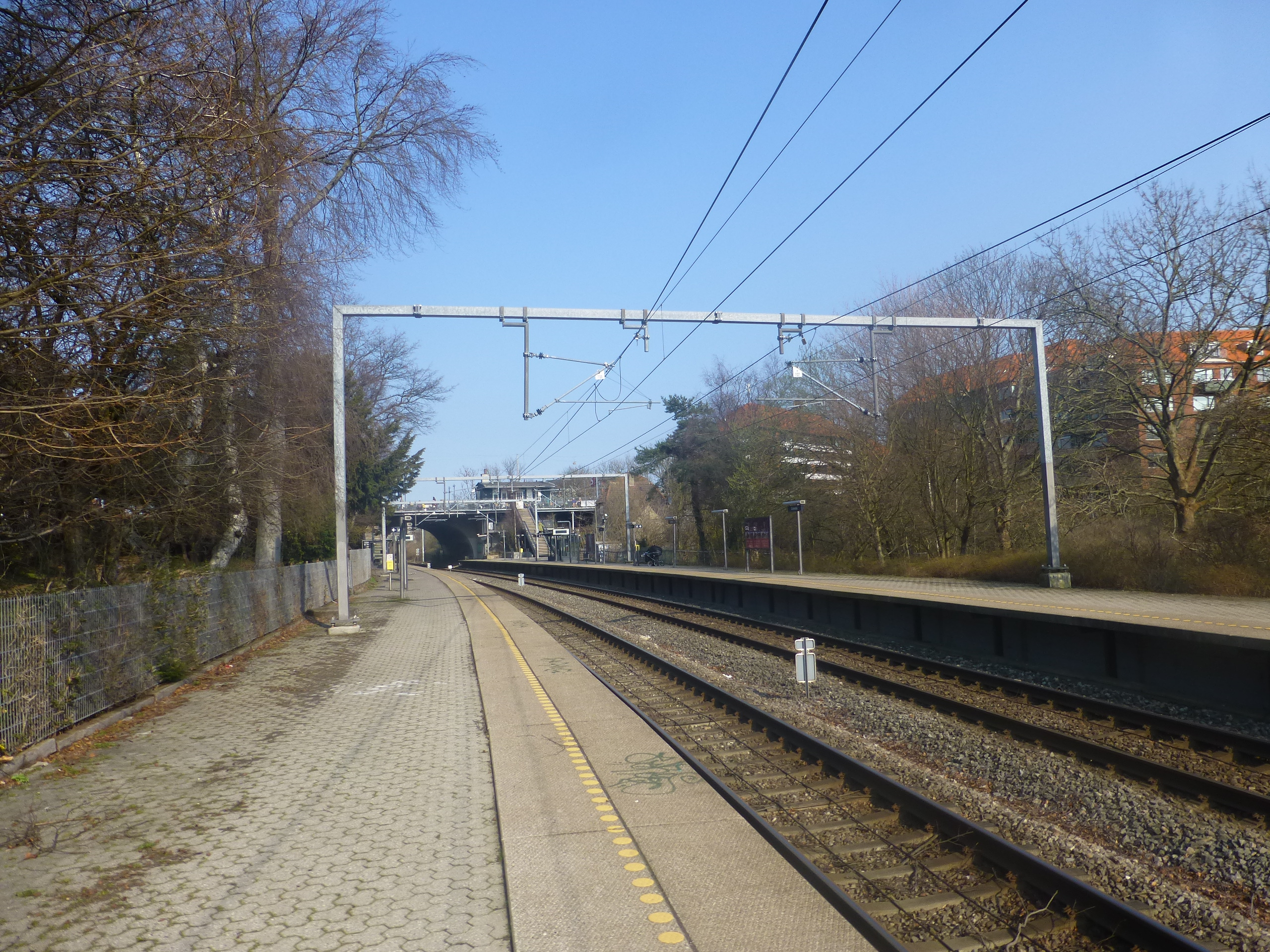 Grøndal Station is a S-train station on Ringbanen in Copenhagen.